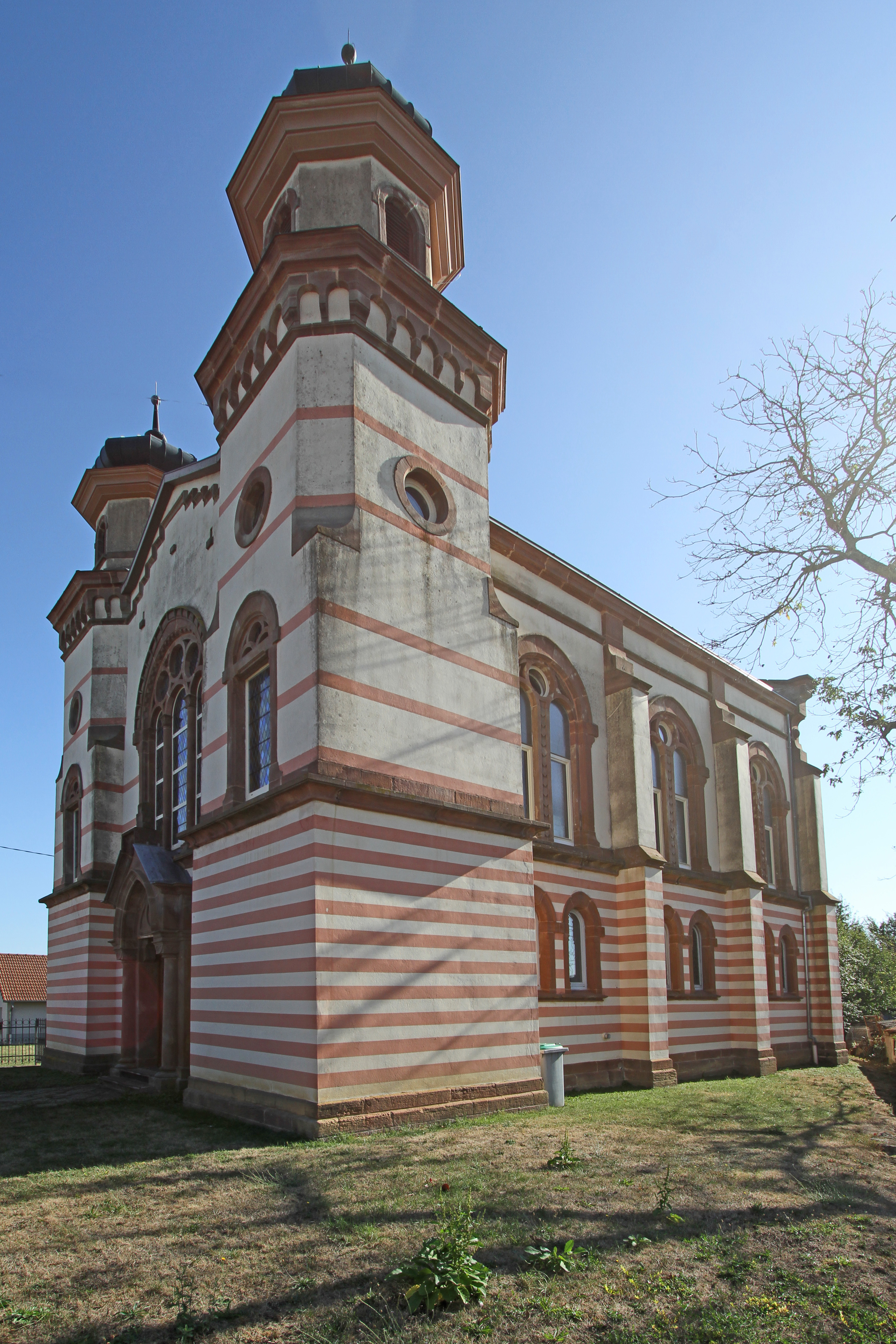 Synagogue in Soultz-sous-Forêts.